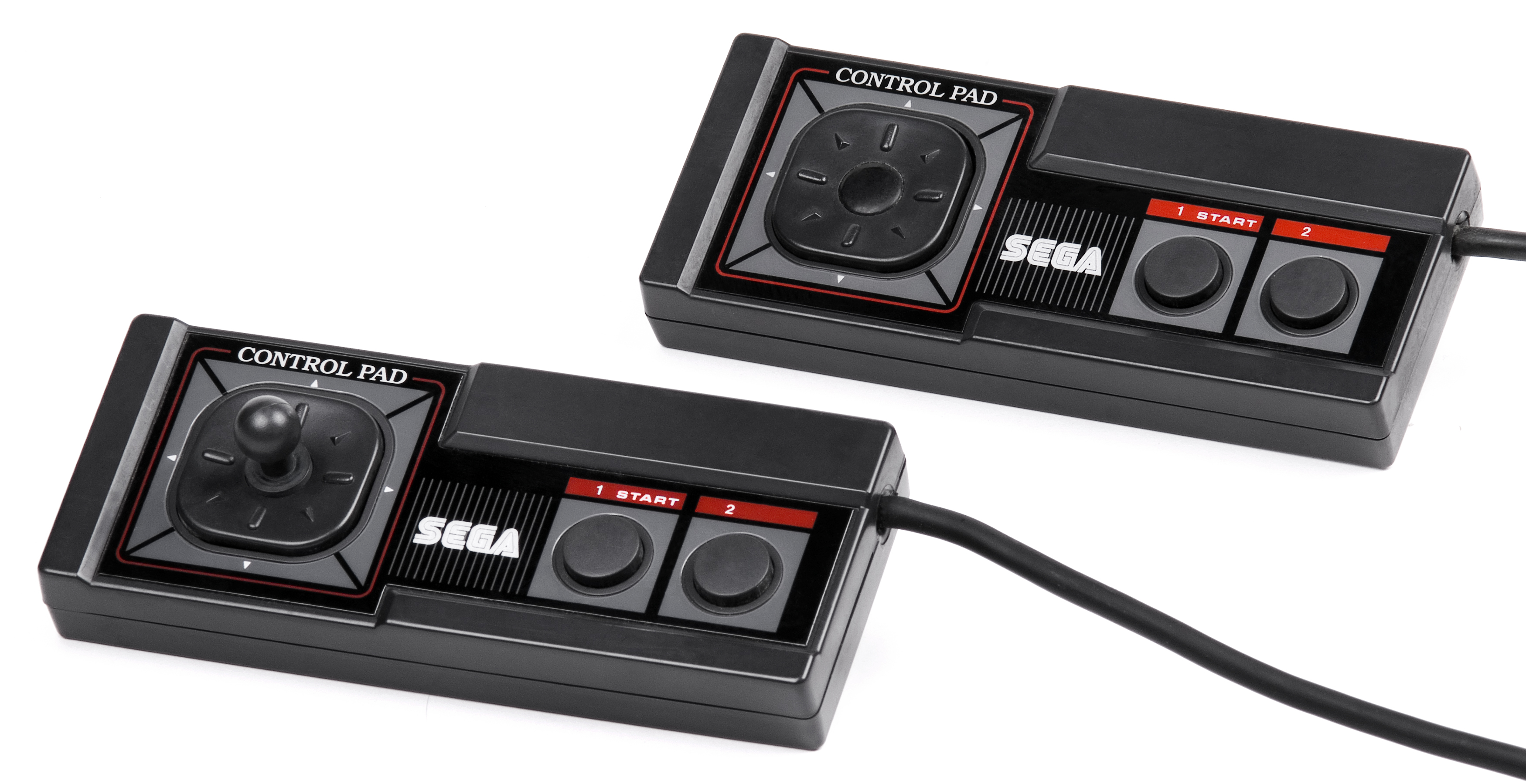 Two Sega Master System video game controllers. One is an early model that came with an unscrewable joystick and the other the flat joypad model.